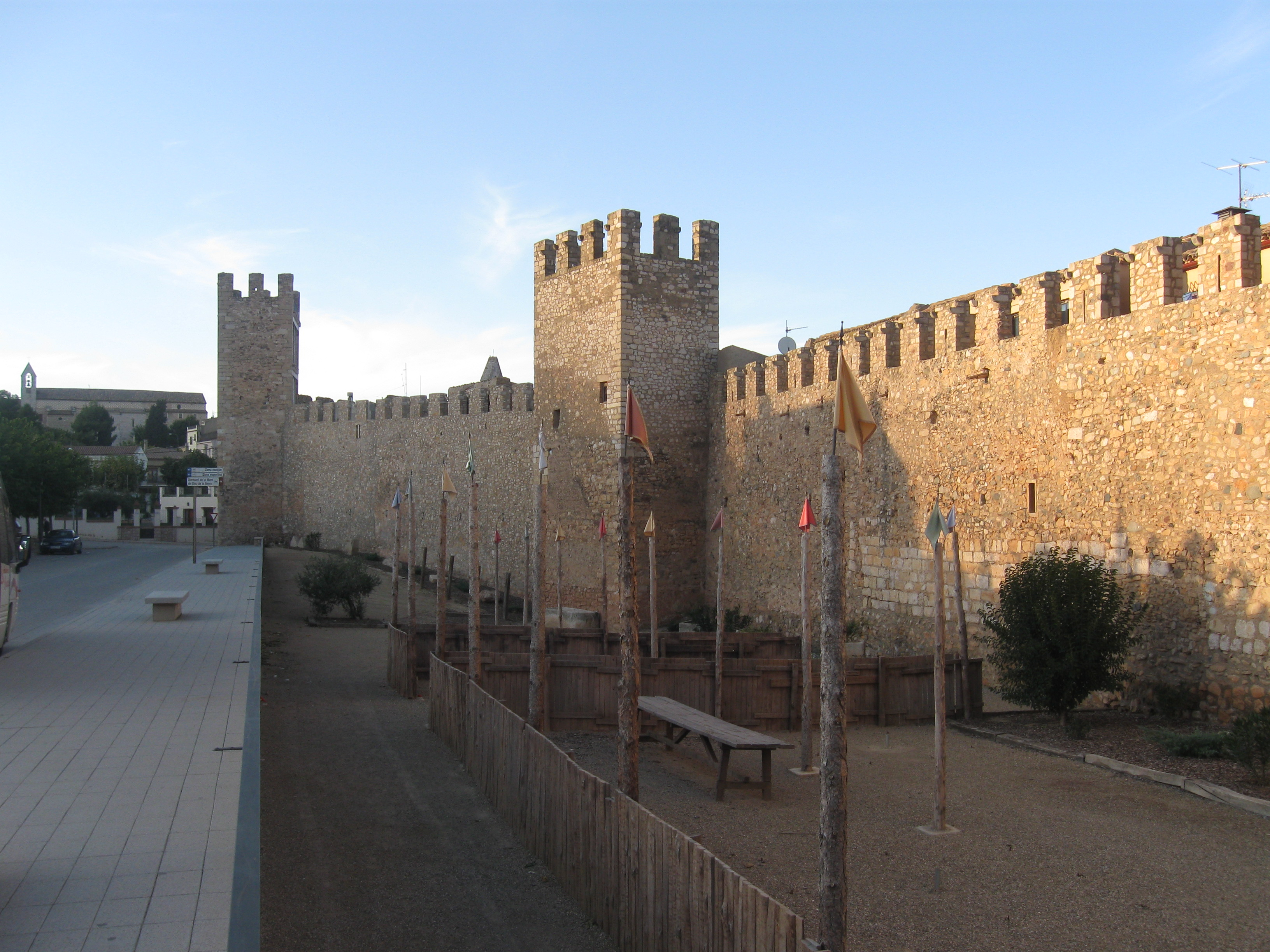 Surrounding Walls in Montblanc, Catalonia